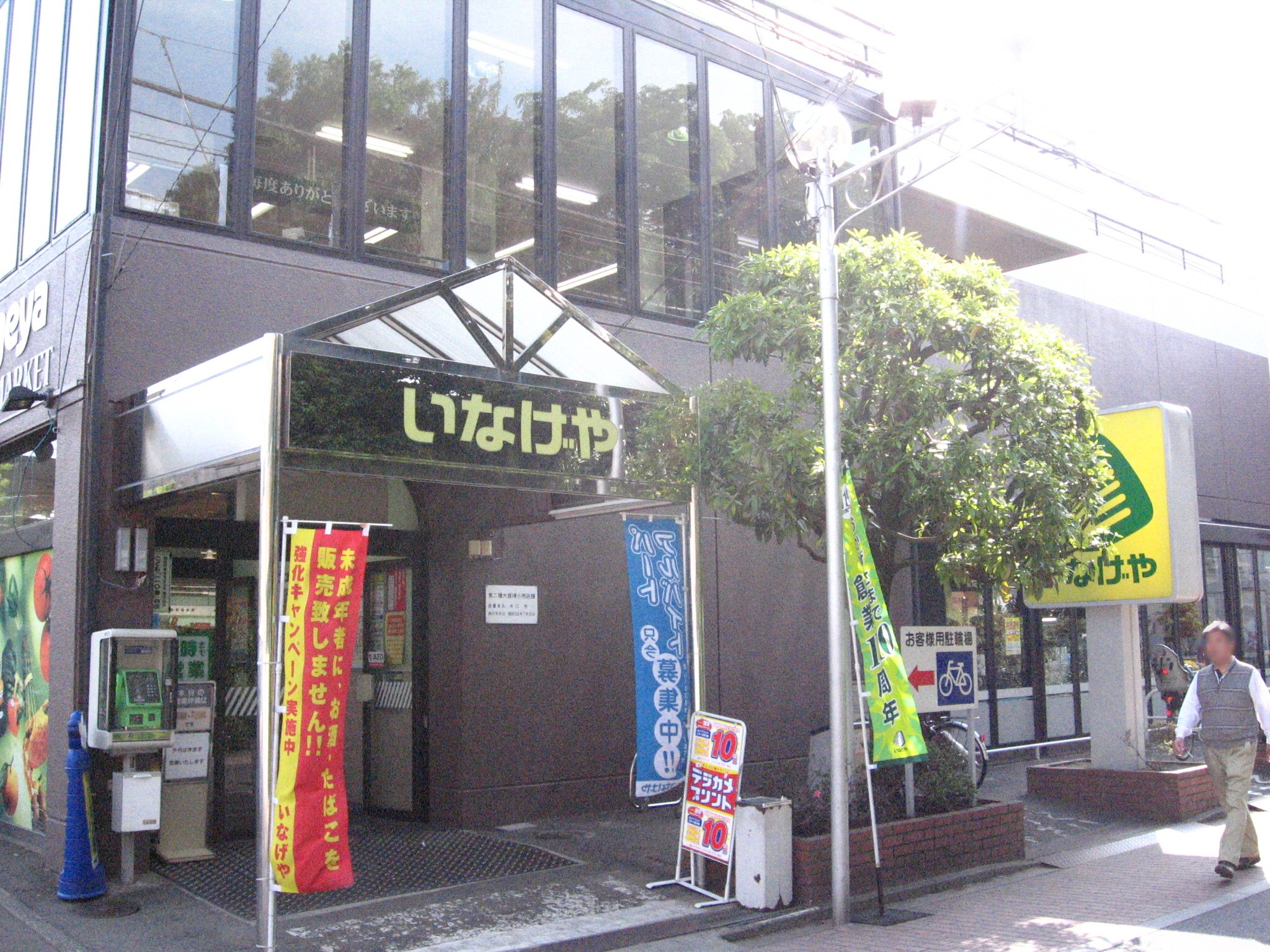 Supermarket "Inageya". Musashino west Kubo shop that exists in Musashino ,Tokyo.